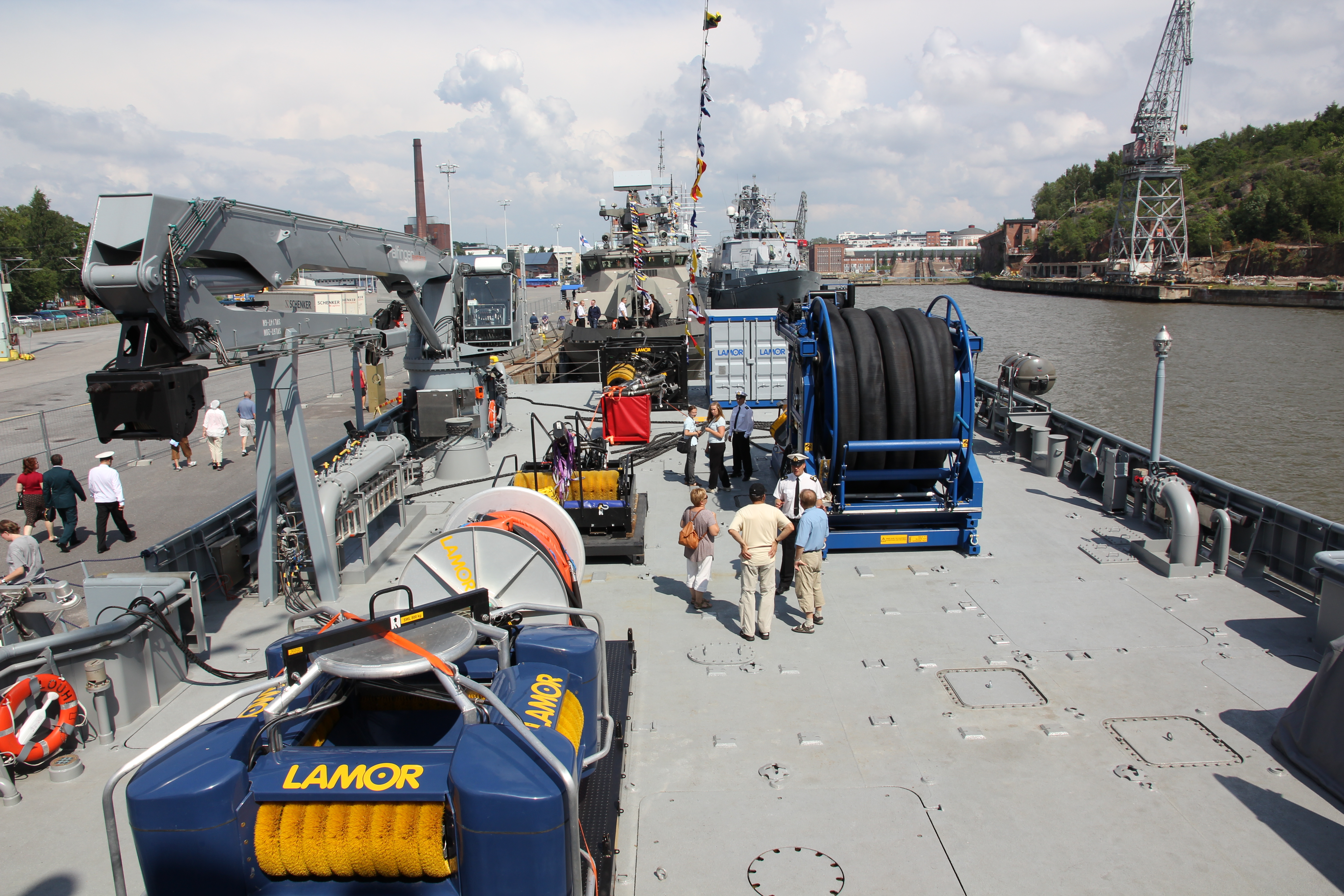 Finnish multifunction / pollution control vessel Louhi stern deck with various oil contamination recovery equipment. Photographed during Finnish Navy 2011 anniversary in Turku.